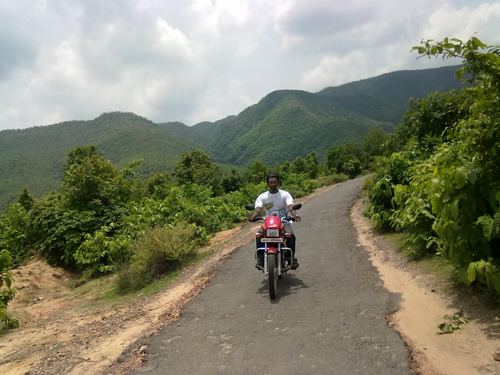 People visit kakolat by this way.